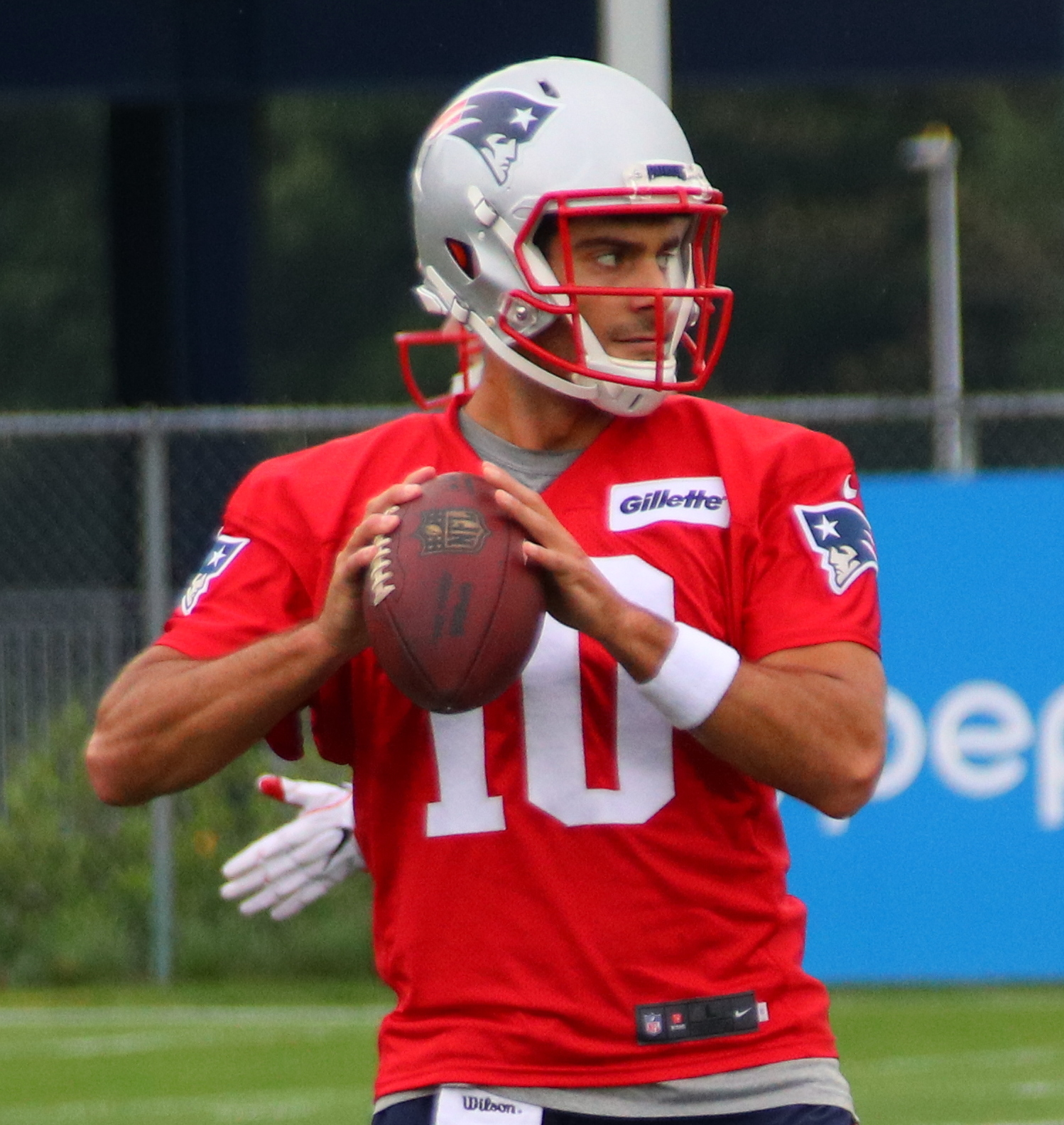 New England Patriots quarterback, Jimmy Garoppolo, at training camp on July 27, 2017.